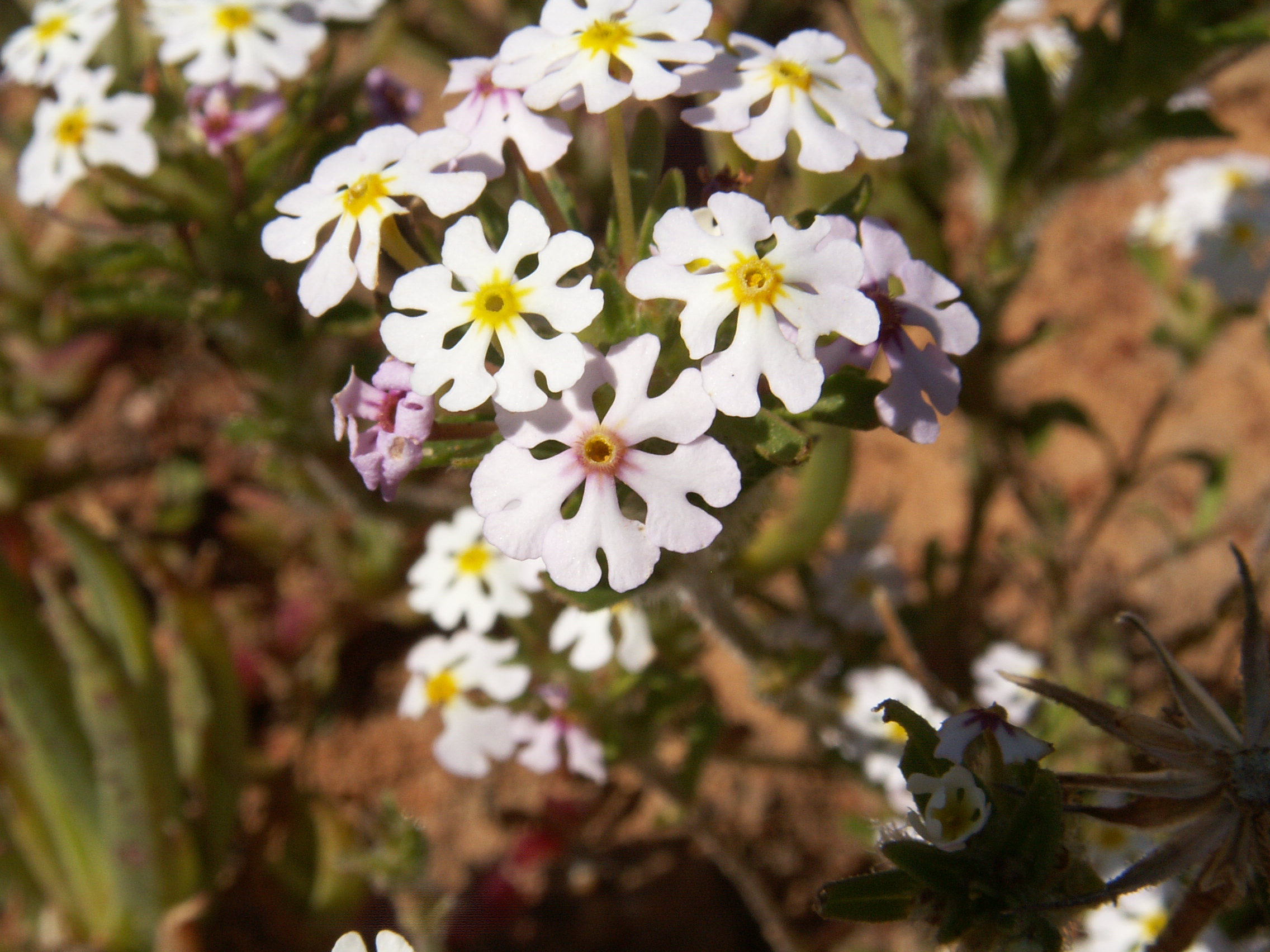 Purple Drumsticks Zaluzianskya affinis Hilliard, Close Up Flower, Clanwiliam, South Africa